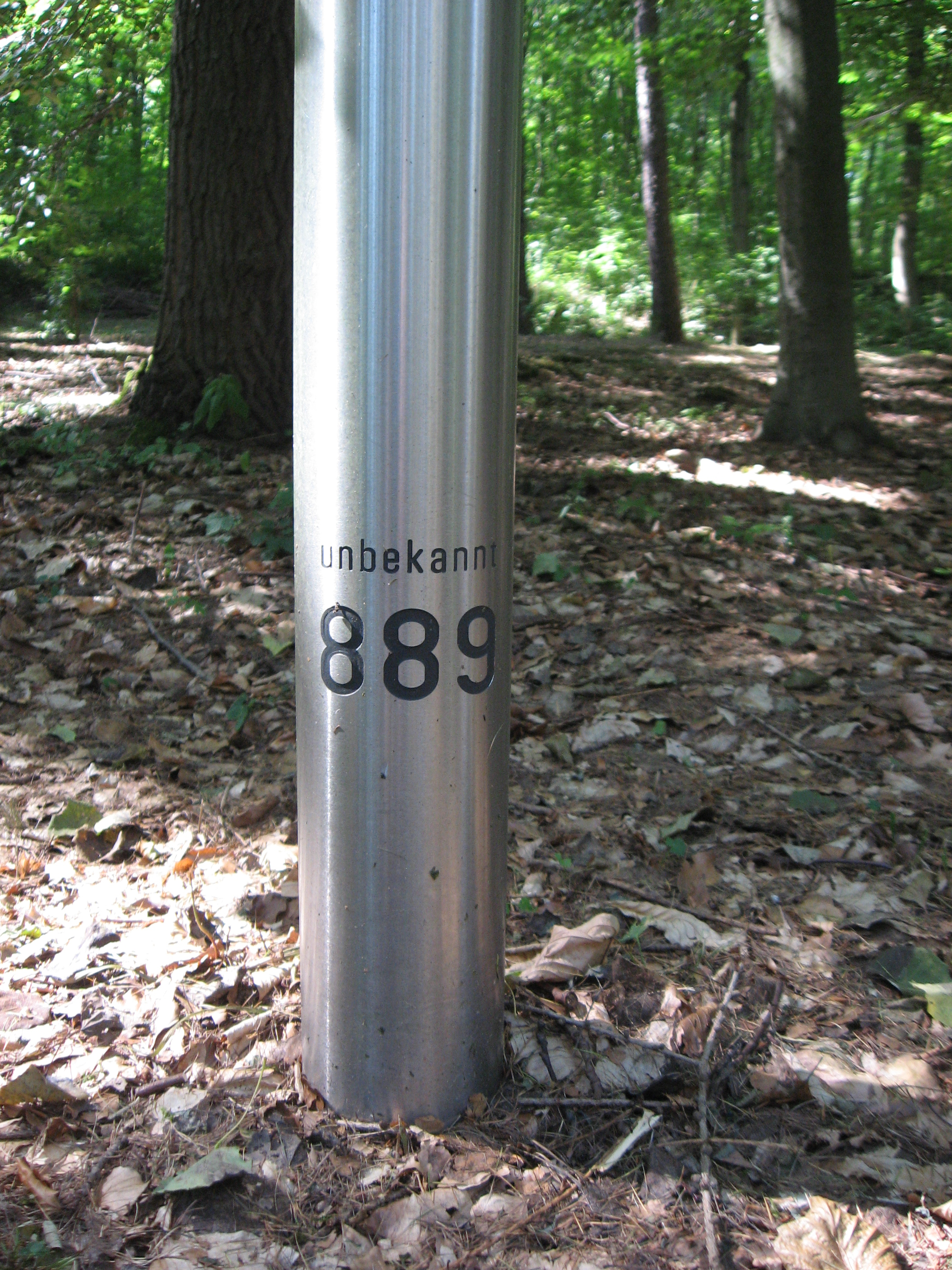 Graveyard of the Sovjet NKVD special camp Nr. 2 (1945–1950), Buchenwald: A grave pole which says: "Unknown 889"